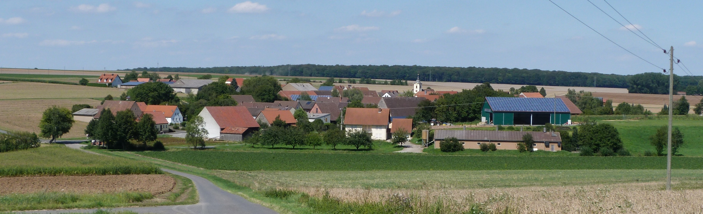 View of Oesfeld, a quarter of Bütthard.